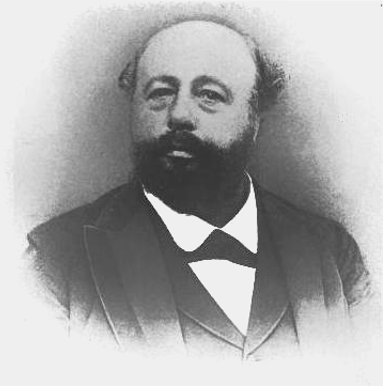 Albert Peschard inventor of the Electro-pneumatic action